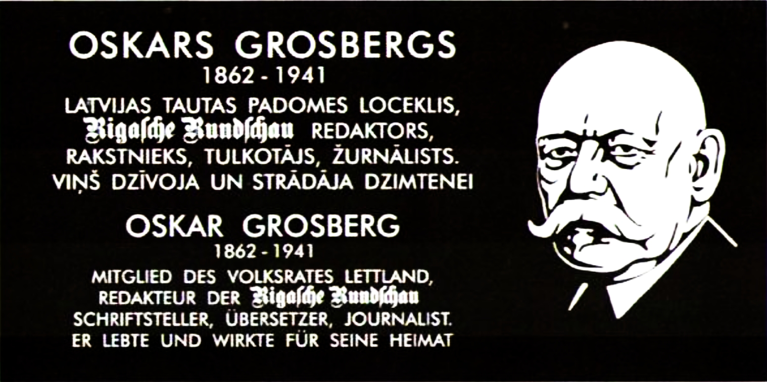 Commemorative plaque for Oskar Grosberg, writer and journalist on the former house of newspaper Rigasche Rundschau (Domu lauka 1 / Mūku iela, Riga), uncovered 2011